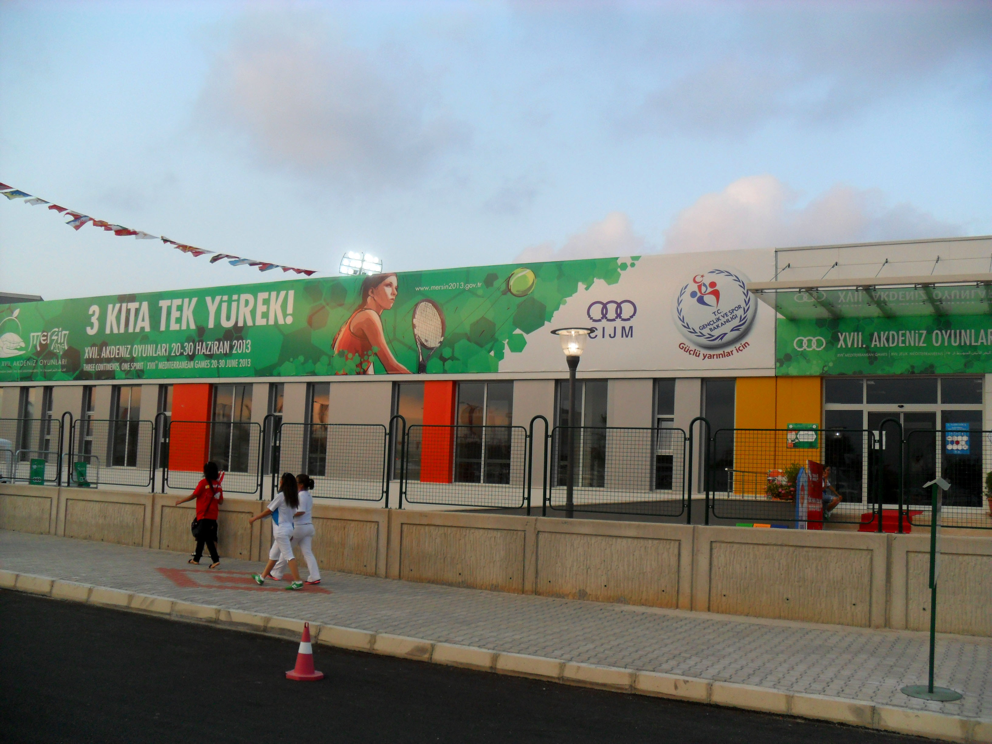 Mersin tennis complex which is used in 2013 Mediterranean games